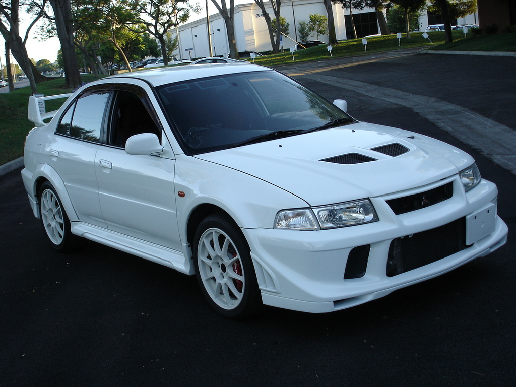 Mitsubishi Lancer Evolution VI